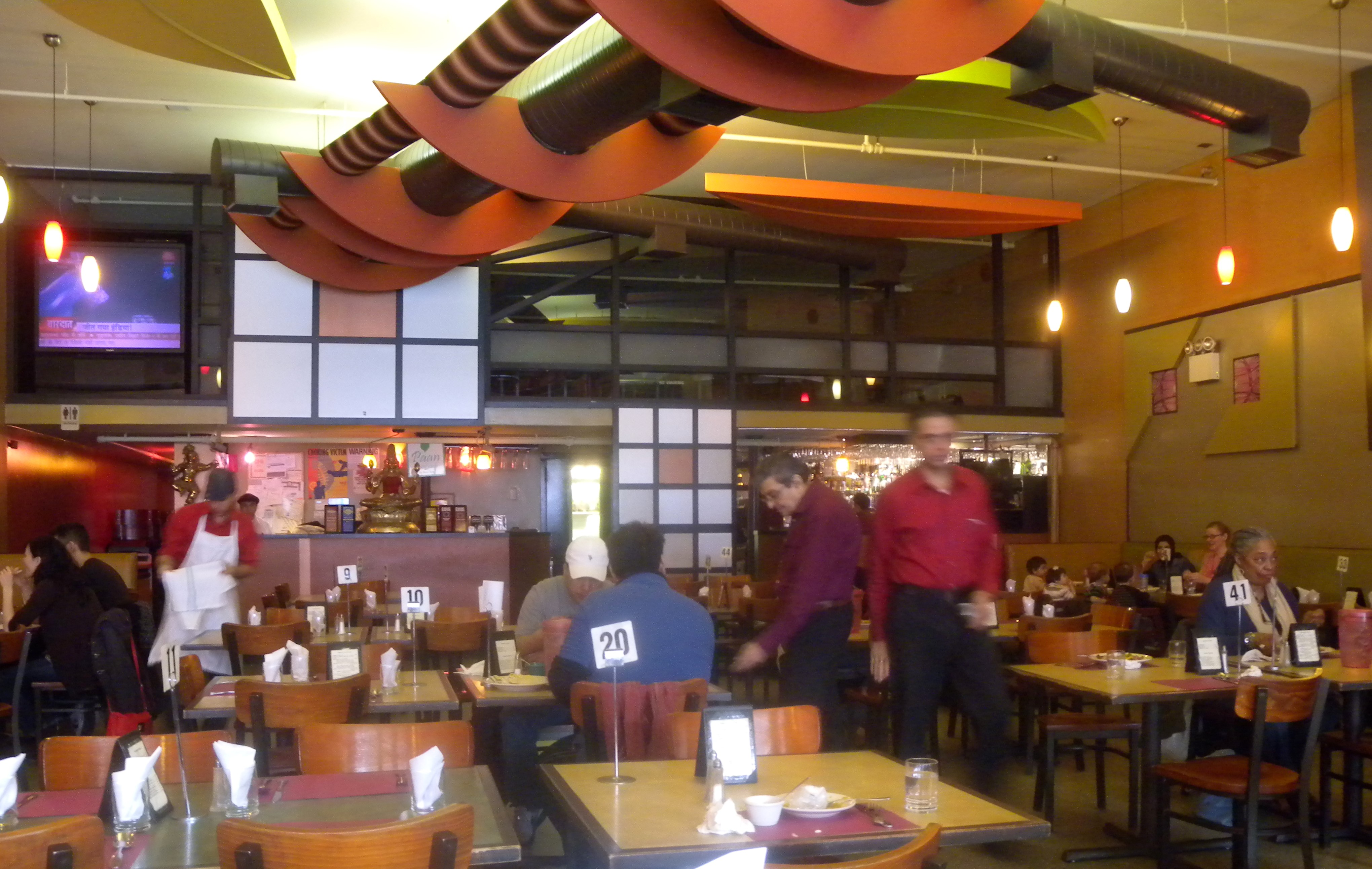 Looking east into Jackson Diner dining room.